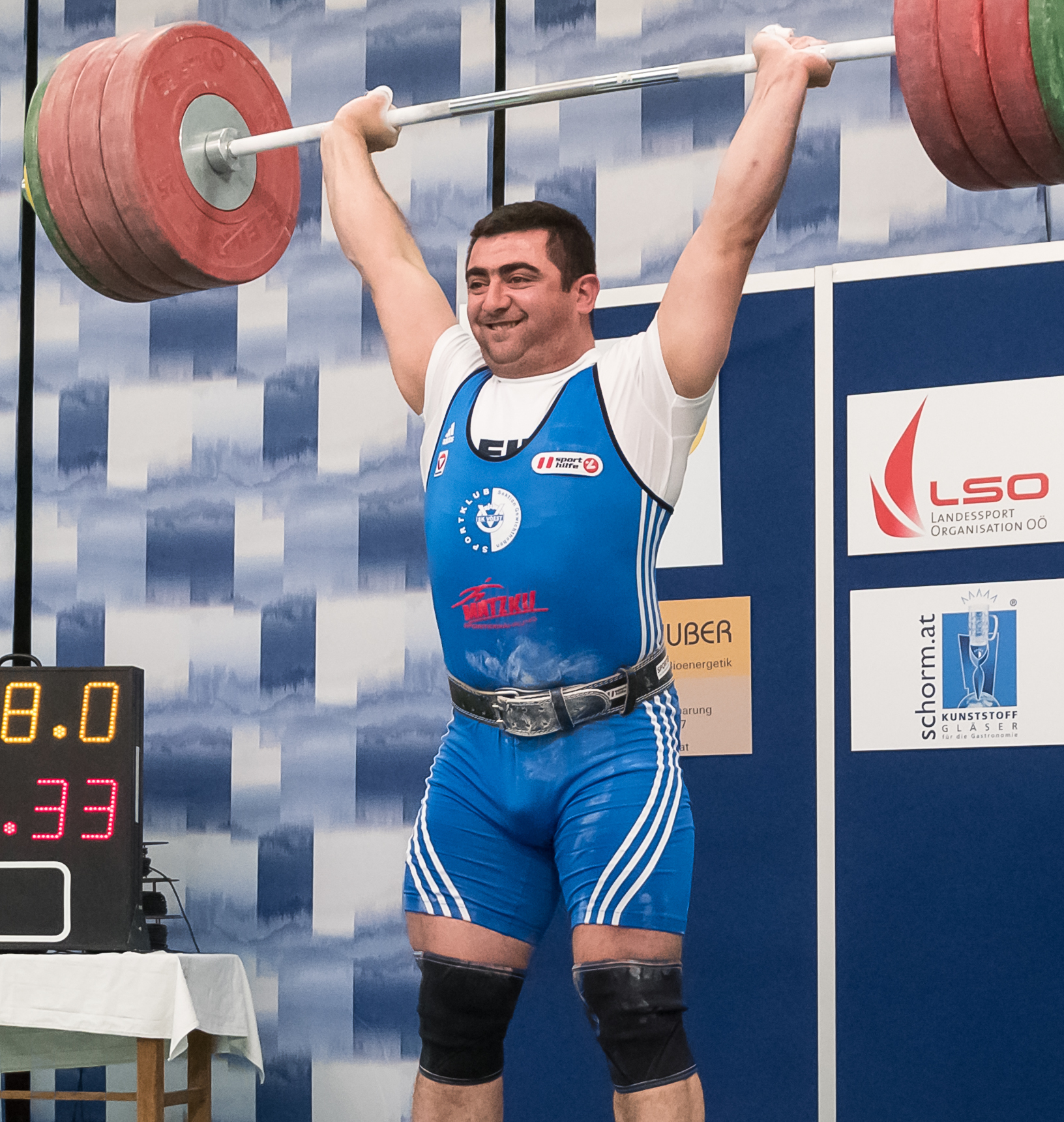 Weightlifting Österreichische Bundesliga 2017 / third round on April 22, 2017 in Linz/ SK VOEST vs. ATUS Bruck an der Mur /Sargis Martirosjan / 198kg clean and jerk